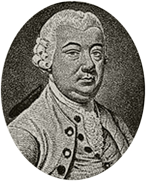 Wood engraving of Samuel Wharton, a member of the Continental Congress.